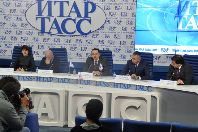 foto from presentation of RUE